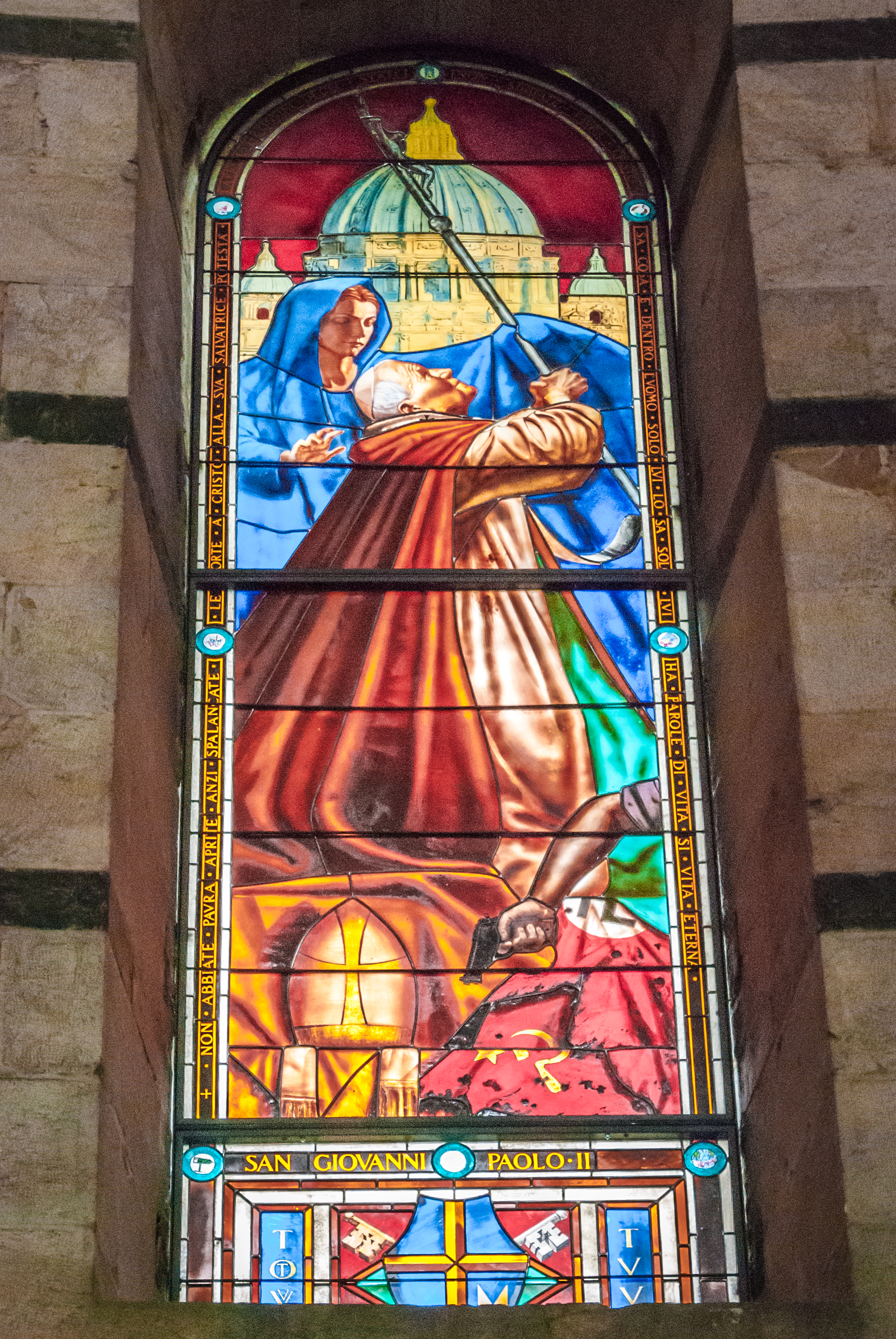 Glass wall of Pope John Paul II in Pisa Baptistery